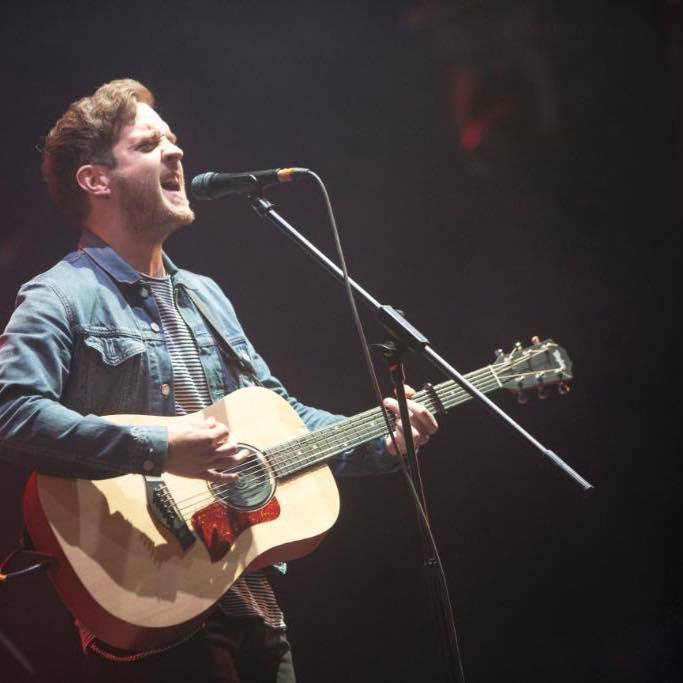 Stevie McCrorie T in the Park2015